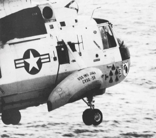 A U.S. Navy Sikorsky SH-3D Sea King helicopter hovers over the Apollo 13 command module Odyssey on 17 April 1970 (location 21°38'24 S 165°21'42 W). Recovery ship for this mission was the helicopter carrier USS Iwo Jima (LPH-2). From late 1968 through the spring of 1970, the Black Knights of HS-4 participated in and pioneered techniques for the Apollo capsule recoveries. HS-4 was on scene for Apollo missions 8, 10, 11, 12, and 13. Note the recovery markings on the helicopter. The helicopter was probably the famous SH-3D BuNo 152711, side number "66". The helicopter's flight number was changed from "66" to "740", as after the Apollo 11 recovery the U.S. Navy had switched to a three number squadron designator - but the helicopter was repainted with the number "66" for each recovery thereafter for public relations reasons. The Sea King BuNo. 152711 could not be preserved, as it crashed on 4 June 1975 on a training flight out Imperial Beach (California, USA). Although the crew was rescued the pilot died later of his injuries. The wreck sank to a depth of ca. 700 m.